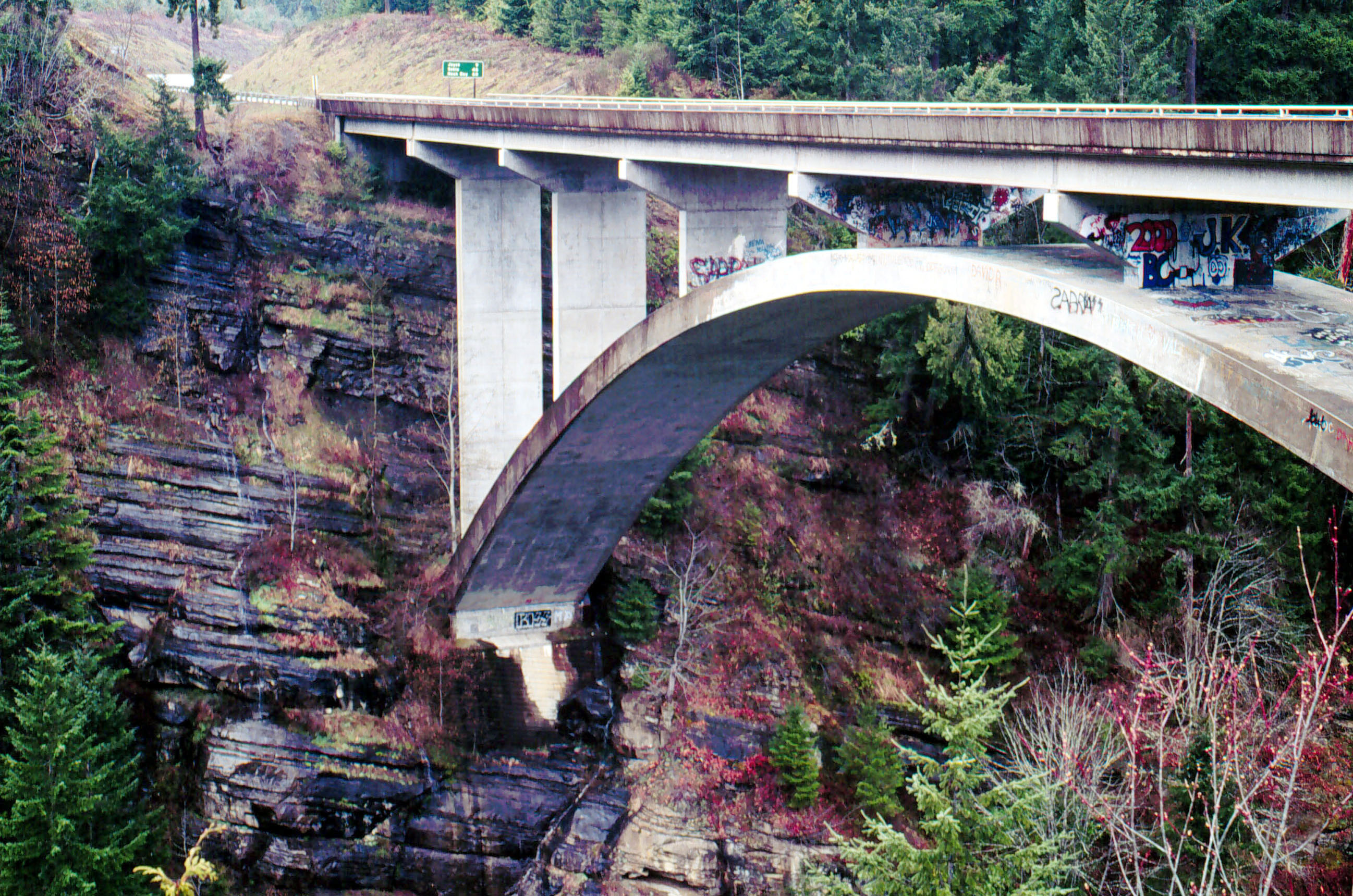 "A highway bridge stretches over the Elwha River Gorge." The Strait of San Juan de Fuca Highway (WA-112) bridge over the Elwha River Gorge.